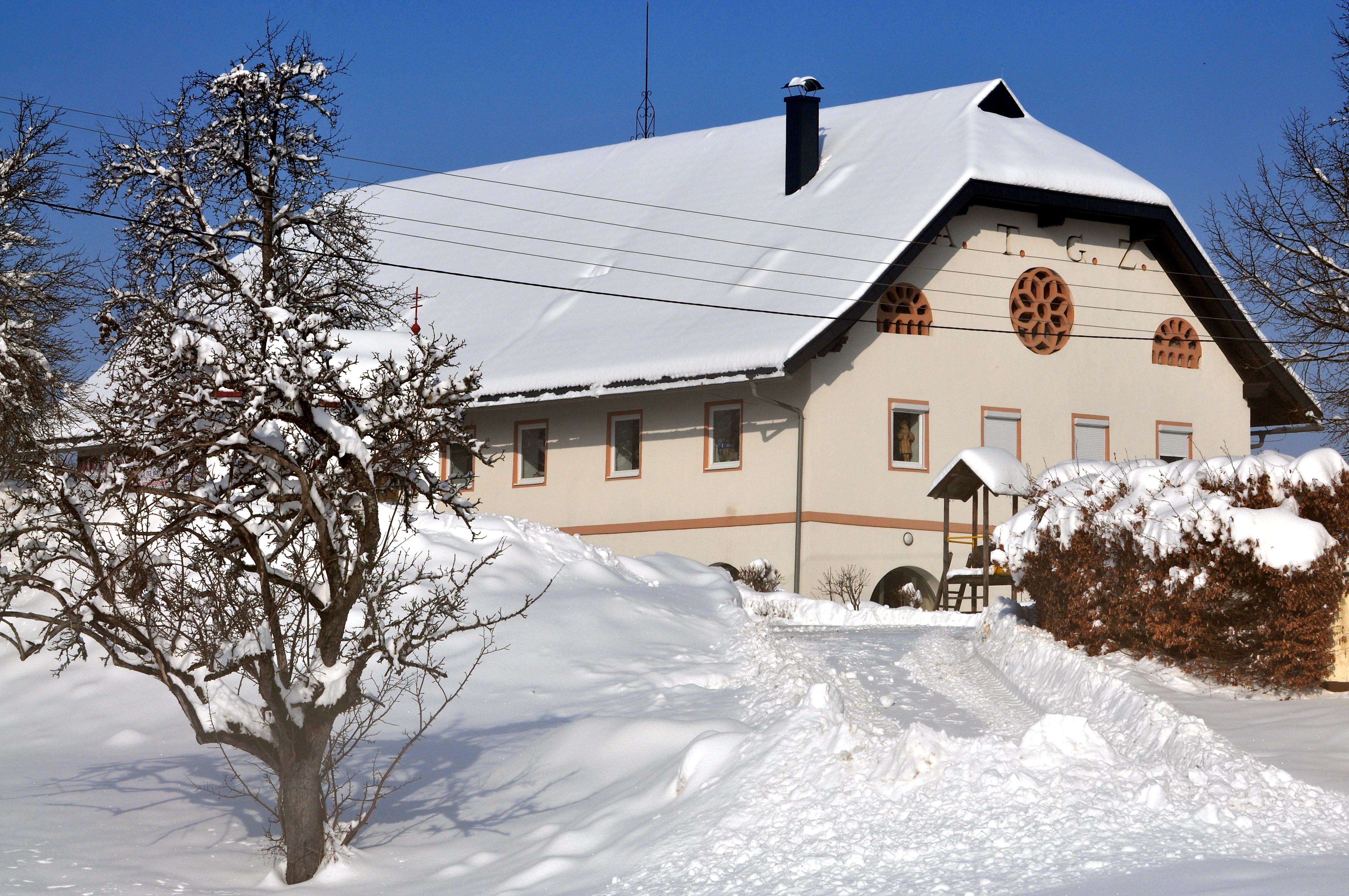 House of culture in Radsberg #4, market town Ebenthal, district Klagenfurt Land, Carinthia, Austria, EU